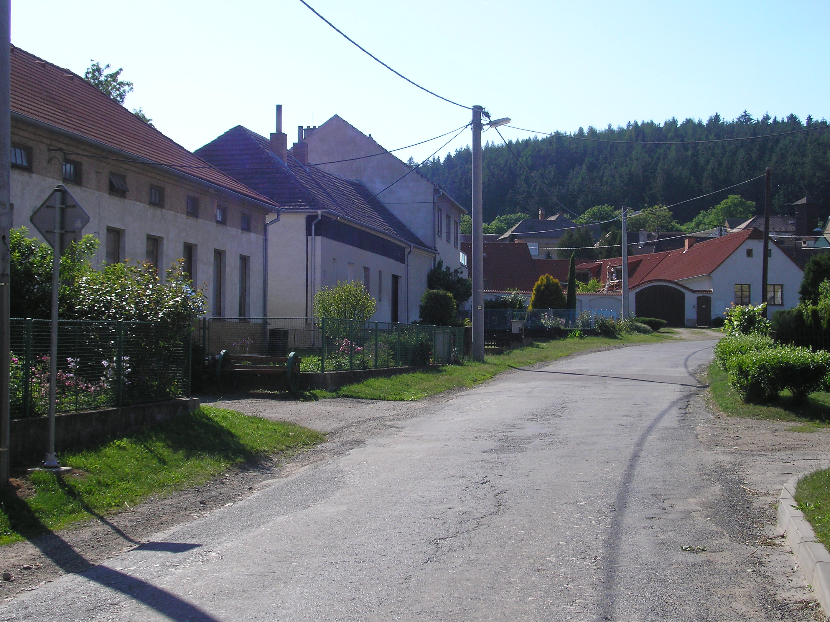 Center of village Mikulovice